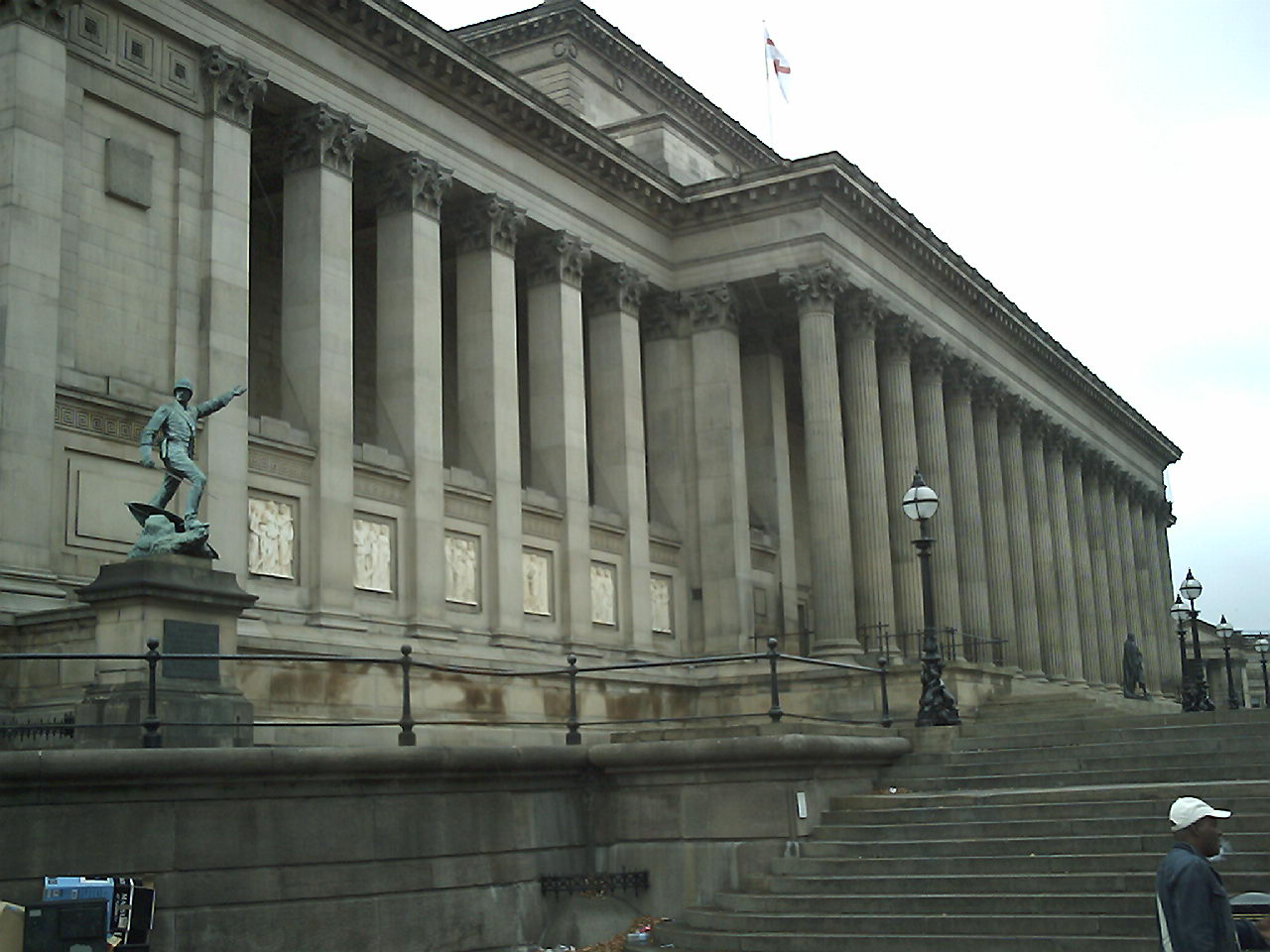 St George's Hall in Liverpool, UK. These steps can be seen in the episode "The Blue Carbuncle" (1984) from the tv series The Adventures of Sherlock Holmes.